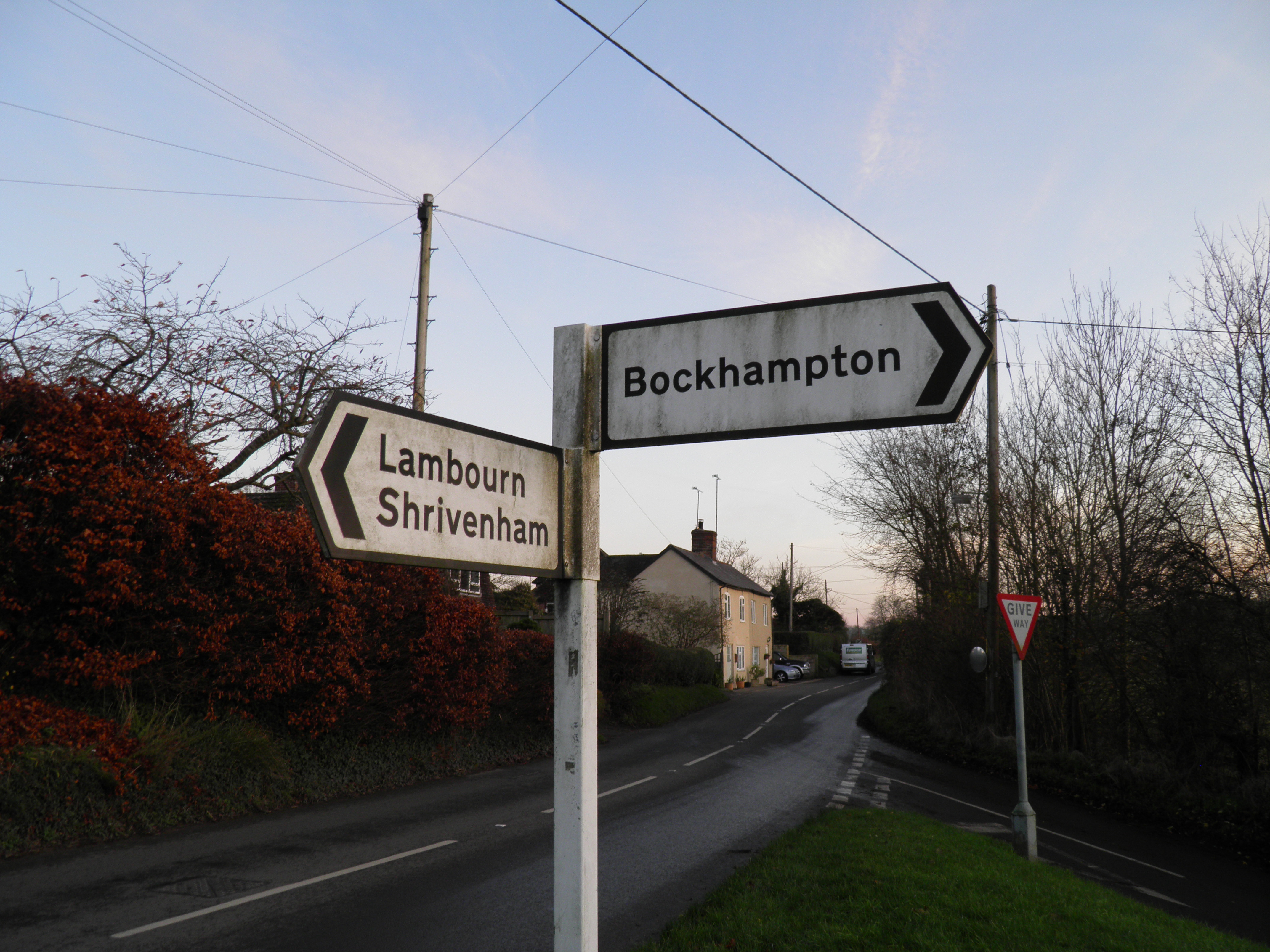 Site of the abandoned village of Bockhampton, Berkshire